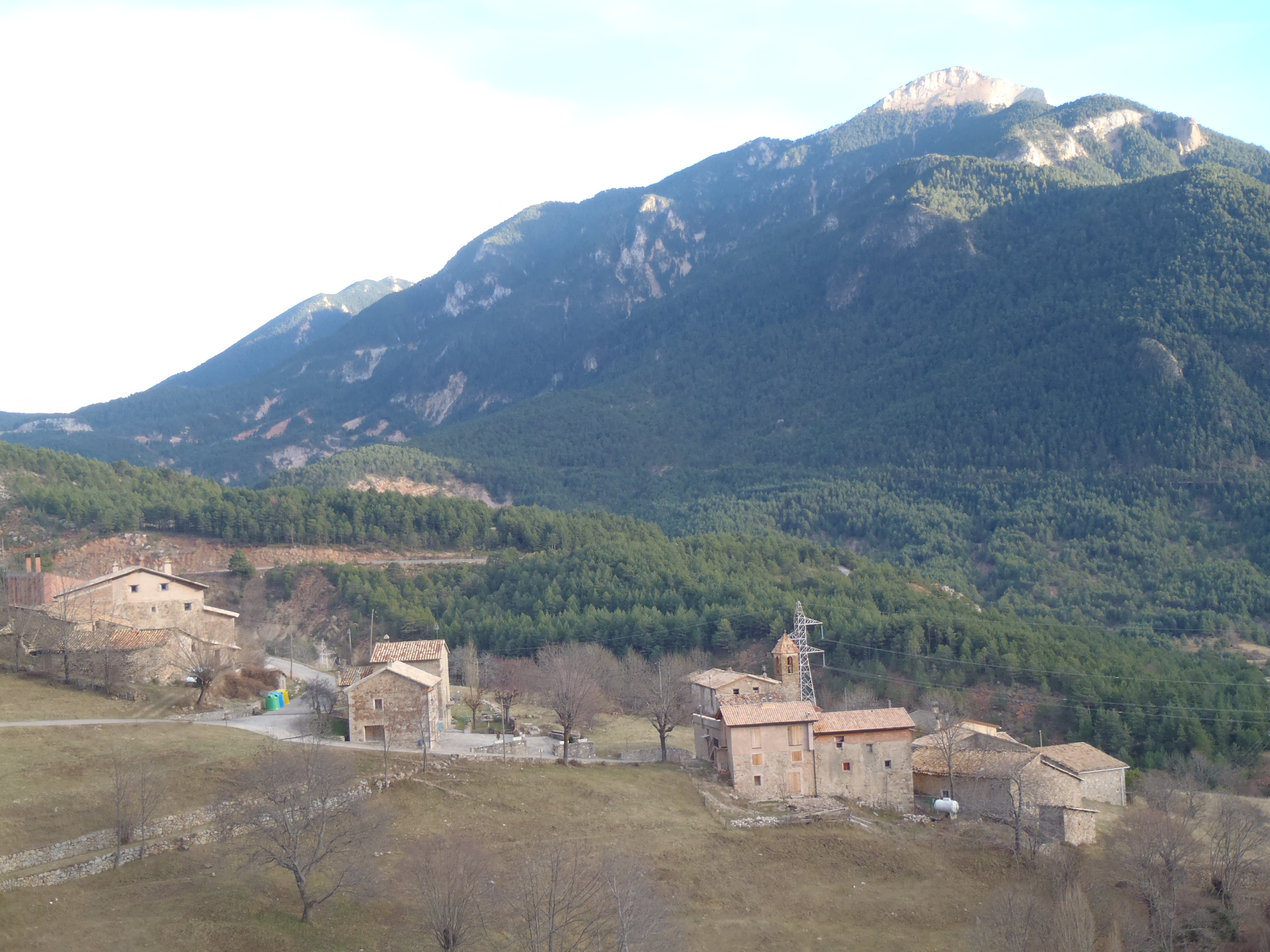 Village of l'Espà, in the municipality of Saldes